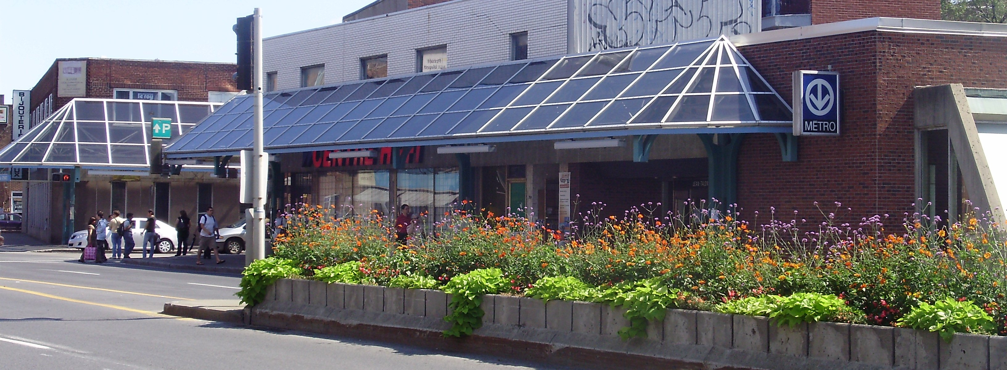 The Société de transport de Montréal's Jean-Talon metro station in Montreal, Quebec, Canada.